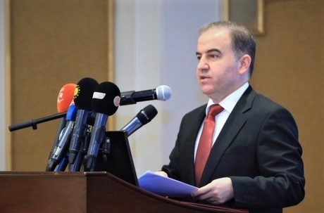 Hemin Hawrami, 24 June 2019